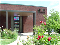 Larson Gallery at Yakima Valley Community College Location